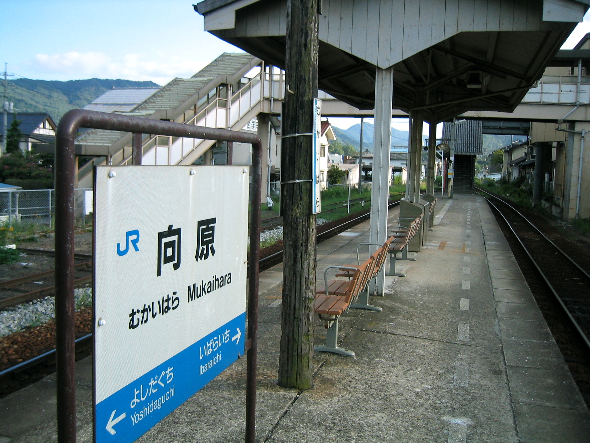 Station platform of Mukaihara Station in Mukaihara-cho, Akitakata-shi, Hiroshima-ken Japan on the Geibi Line.